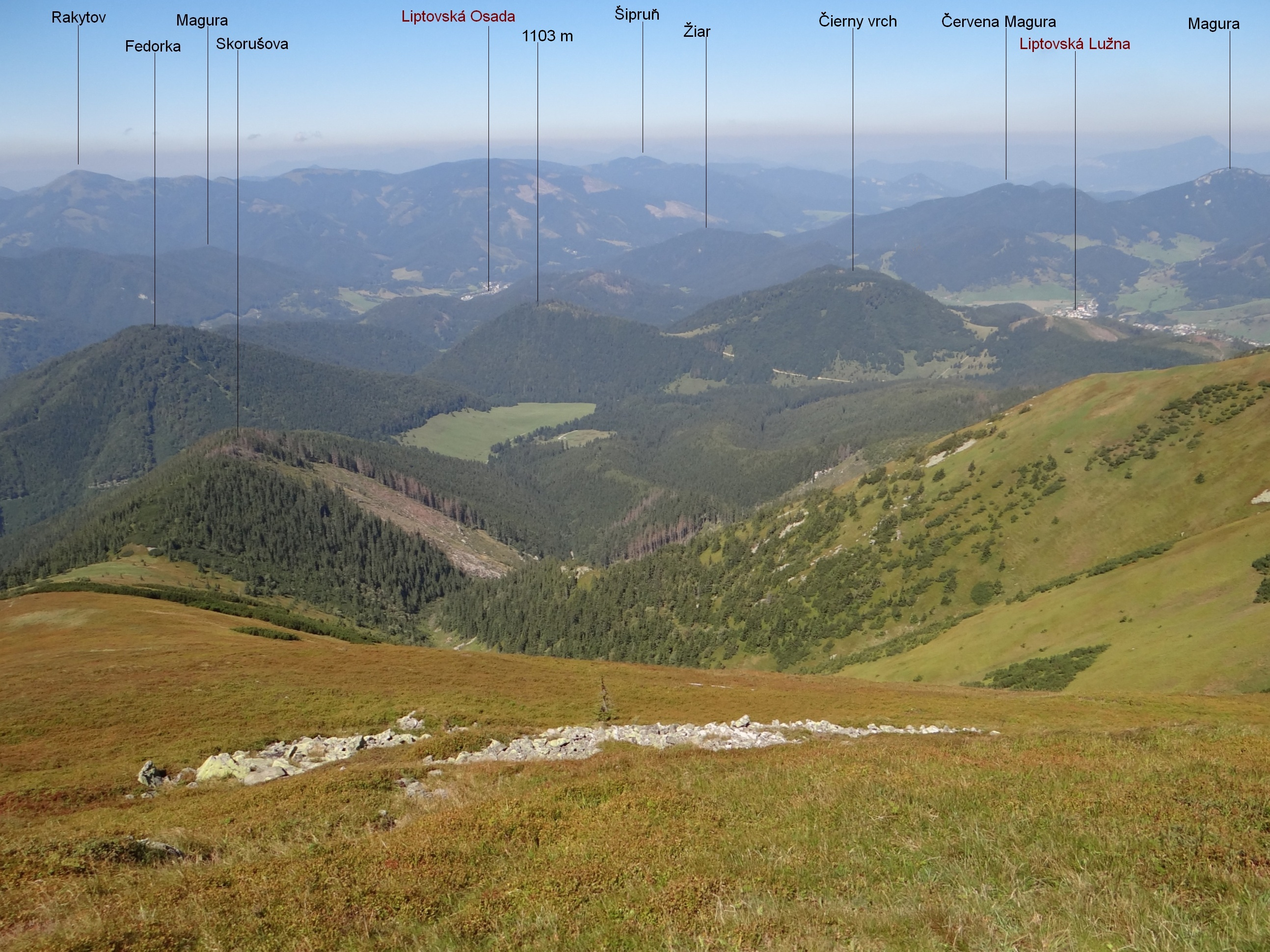 View from Malá Chochuľa